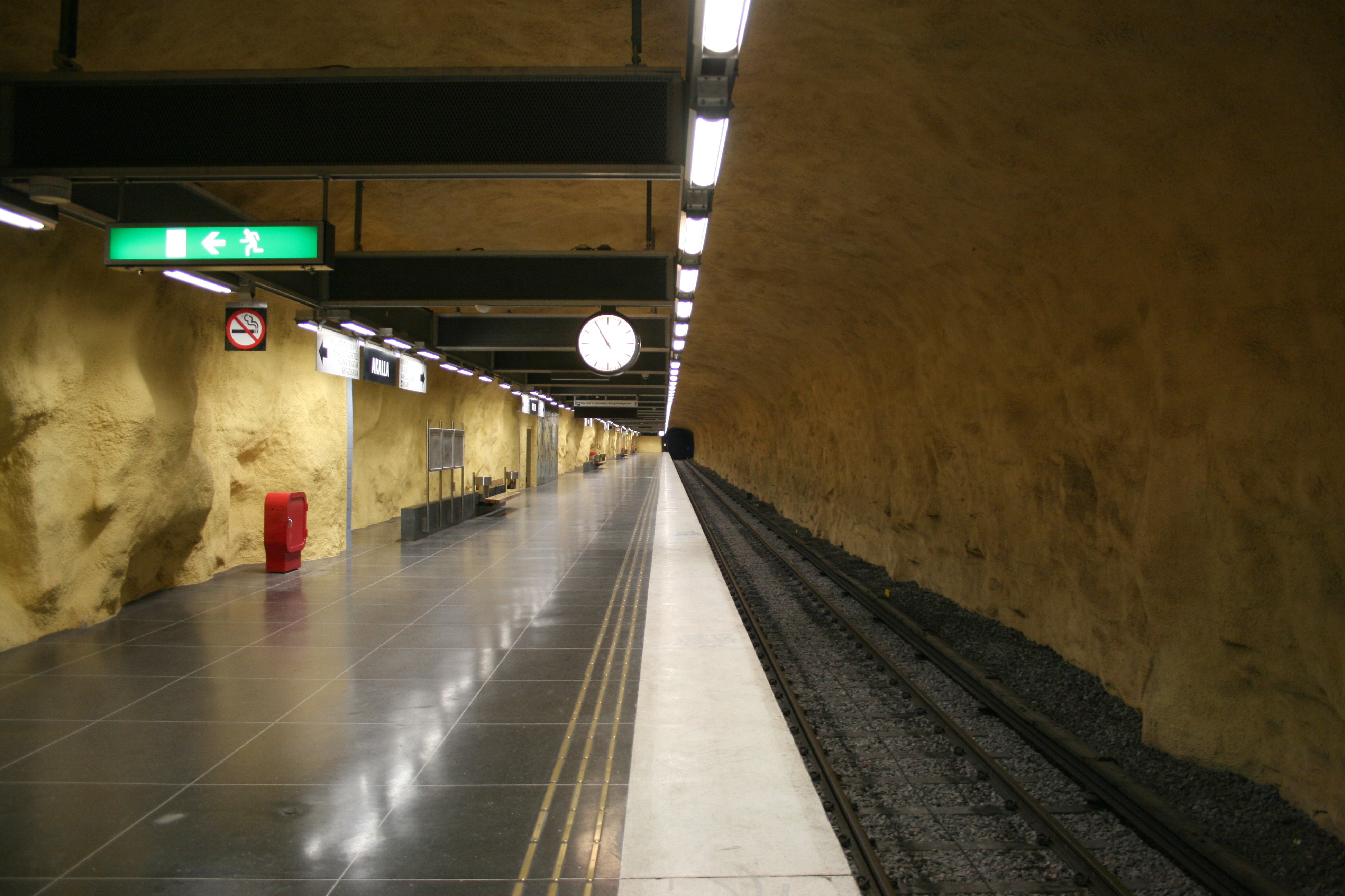 Akalla metro station, Stockholm, Sweden